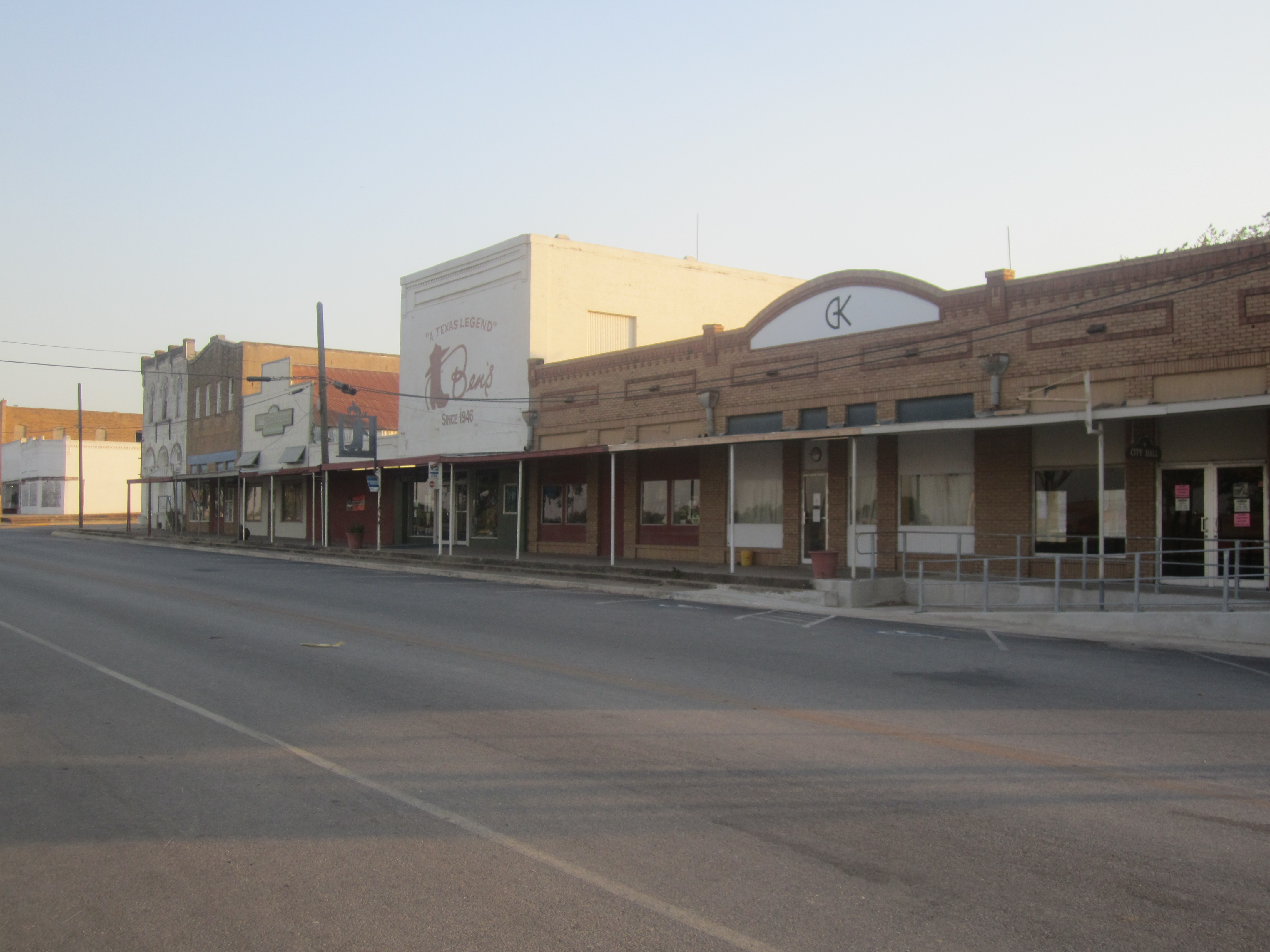 I took photo with Canon camera in Cotulla, TX.